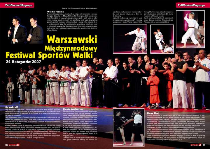 Ninja5